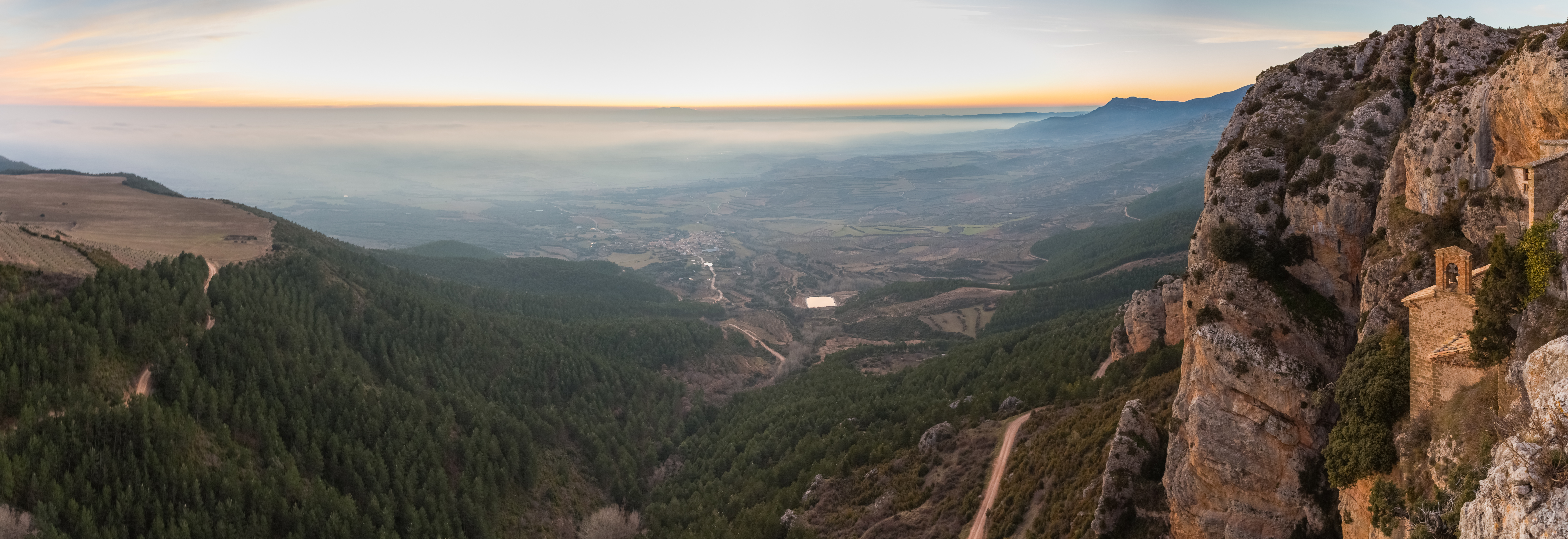 Hermitage of the Virgin of the Rock, LIC Sierras de Santo Domingo y Cabellera, Aniés, Huesca, Spain.